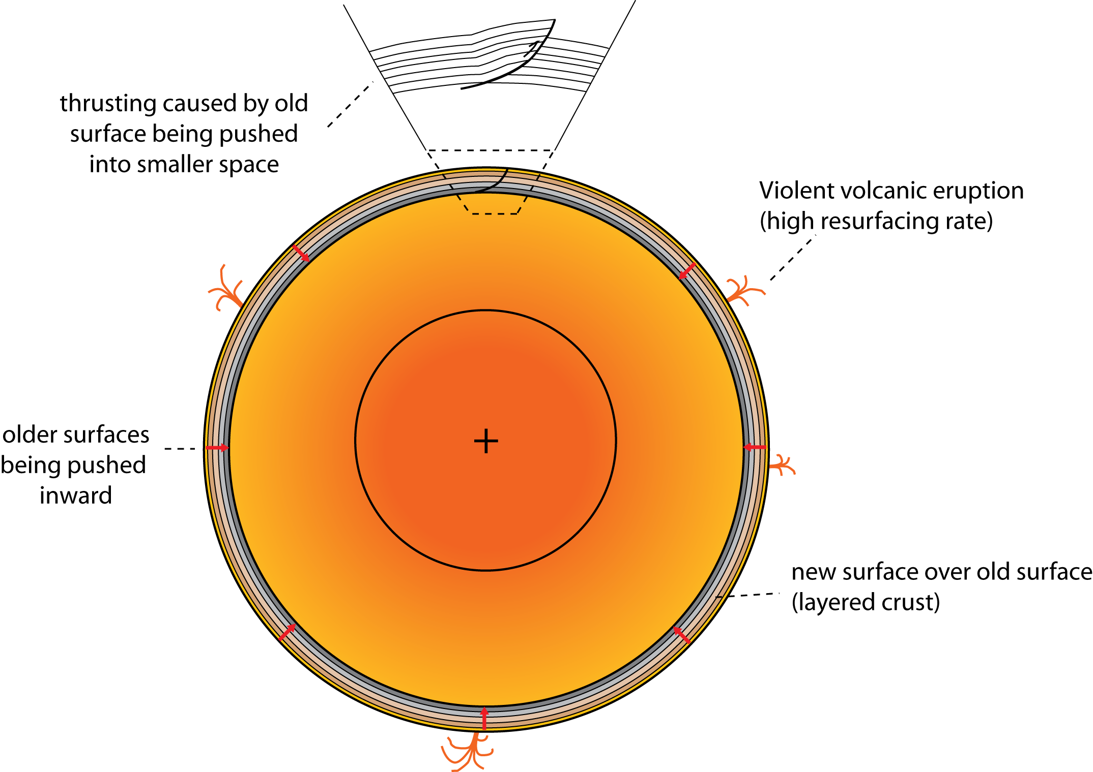 This image shows the geodynamic model of Jupter's moon, Io.